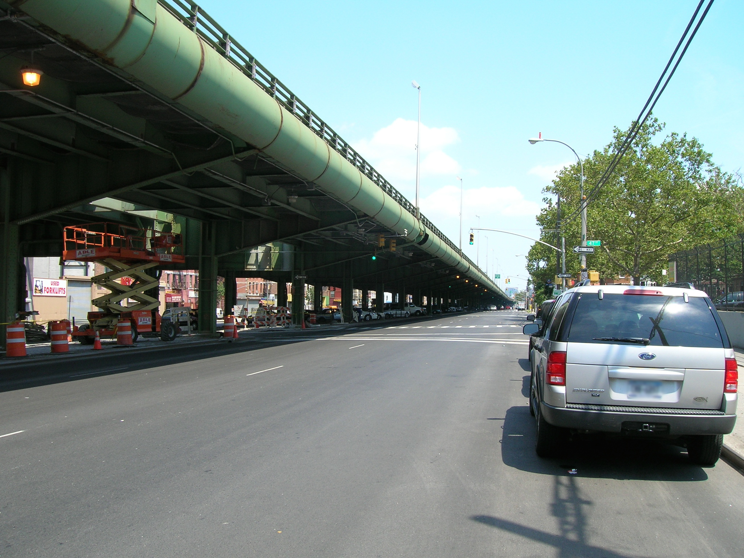 2006.08.06 • an oldie from a now primative camera. as usual, out biking.